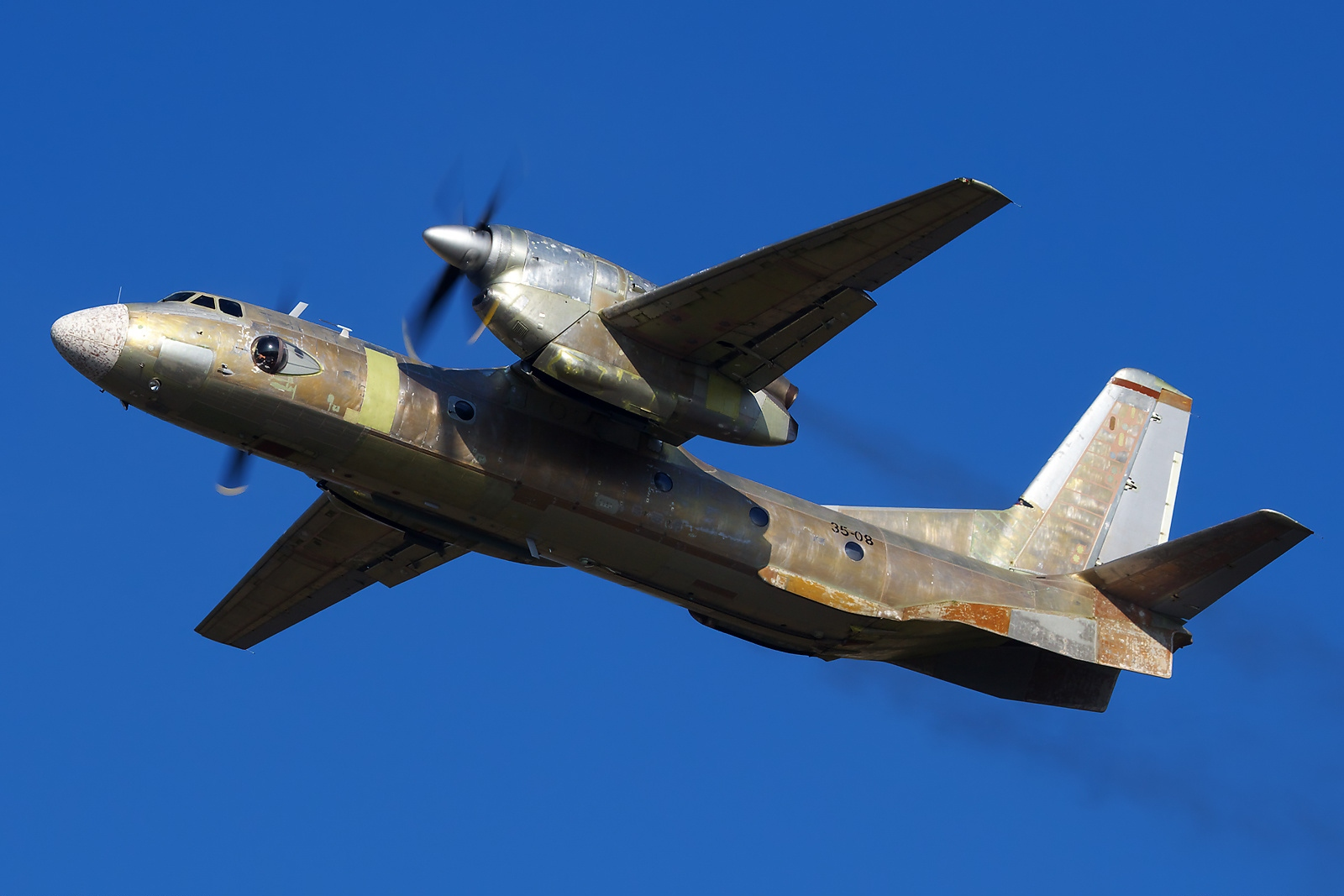 Test flight after a total overhaul; naked metal is waiting for a new paint job